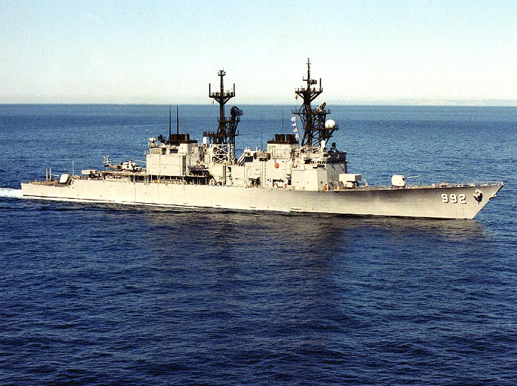 The U.S. Navy destroyser USS Fletcher (DD-992) underway off Catalina Island, California (USA), 4 February 1988.